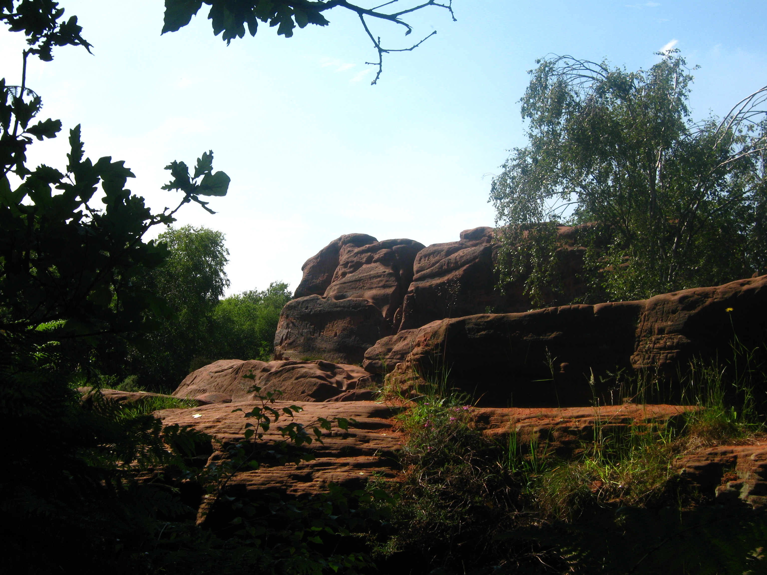 Thor's Rock Thurstaston Common Wirral. Thors Stone Thurstaston Common Wirral.